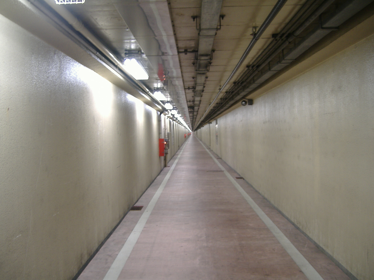 Kawasaki Port Tunnel, Sidewalk (Kawasaki, Japan)